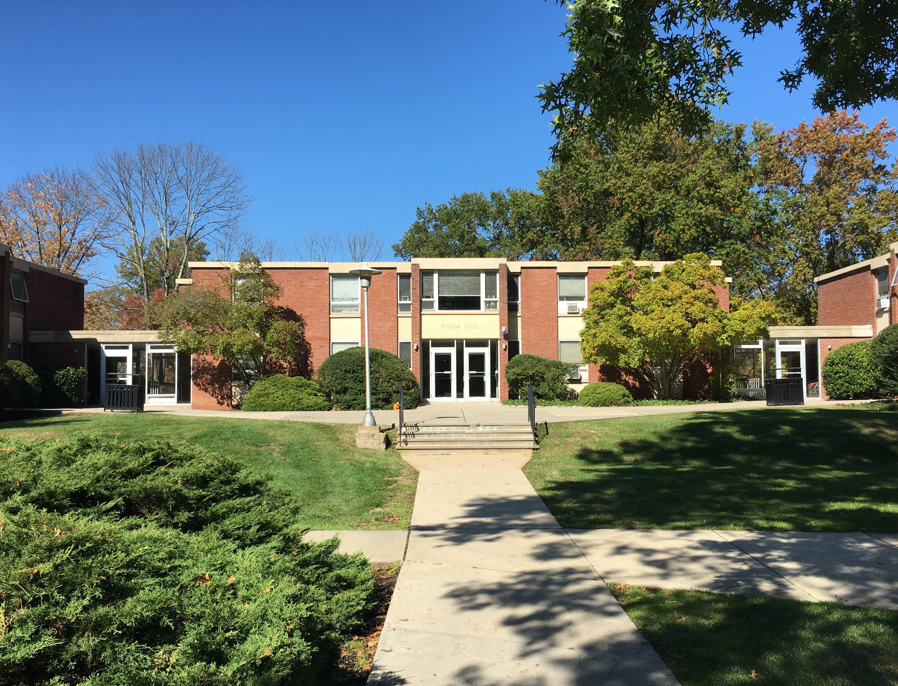 Ithaca Hall on the campus of Westminster Choir College in Princeton, New Jersey. The name of the hall reflects the time from 1929–32 when the choir school was part of Ithaca College in Ithaca, New York.